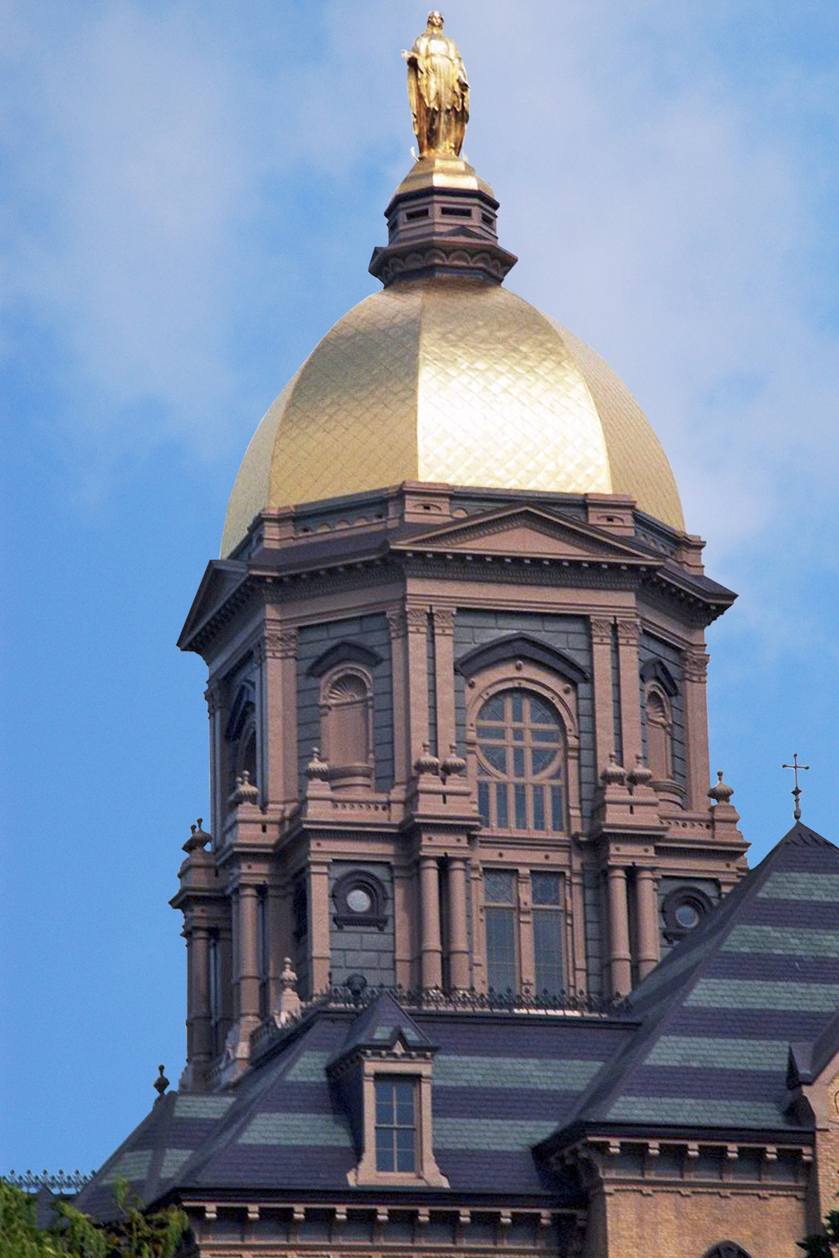 Golden roof of the University of Notre Dame